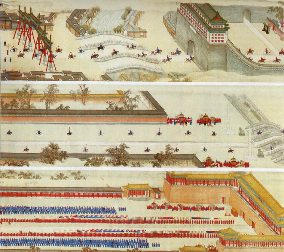 The Kangxi-Emperor returns to the Forbidden City after his southern tour in 1689.The imperial court is awaiting the emperors arrival to the palace. Kangxi does not appear in this parts of the roll. The central part is the actual Tian'anmen Square.